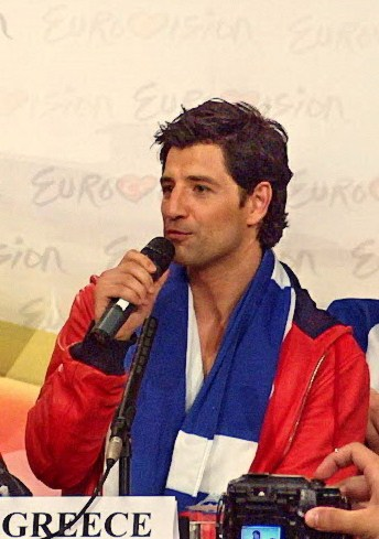 Sakis Rouvas (Σάκης Ρουβάς), representing Greece, speaking at the press conference of the 10 countries qualified for the Final of Eurovision 2004 - At the press tent, outside the Abdi İpekçi Arena in Istanbul, Turkey, right after the end of the Semi-Final.